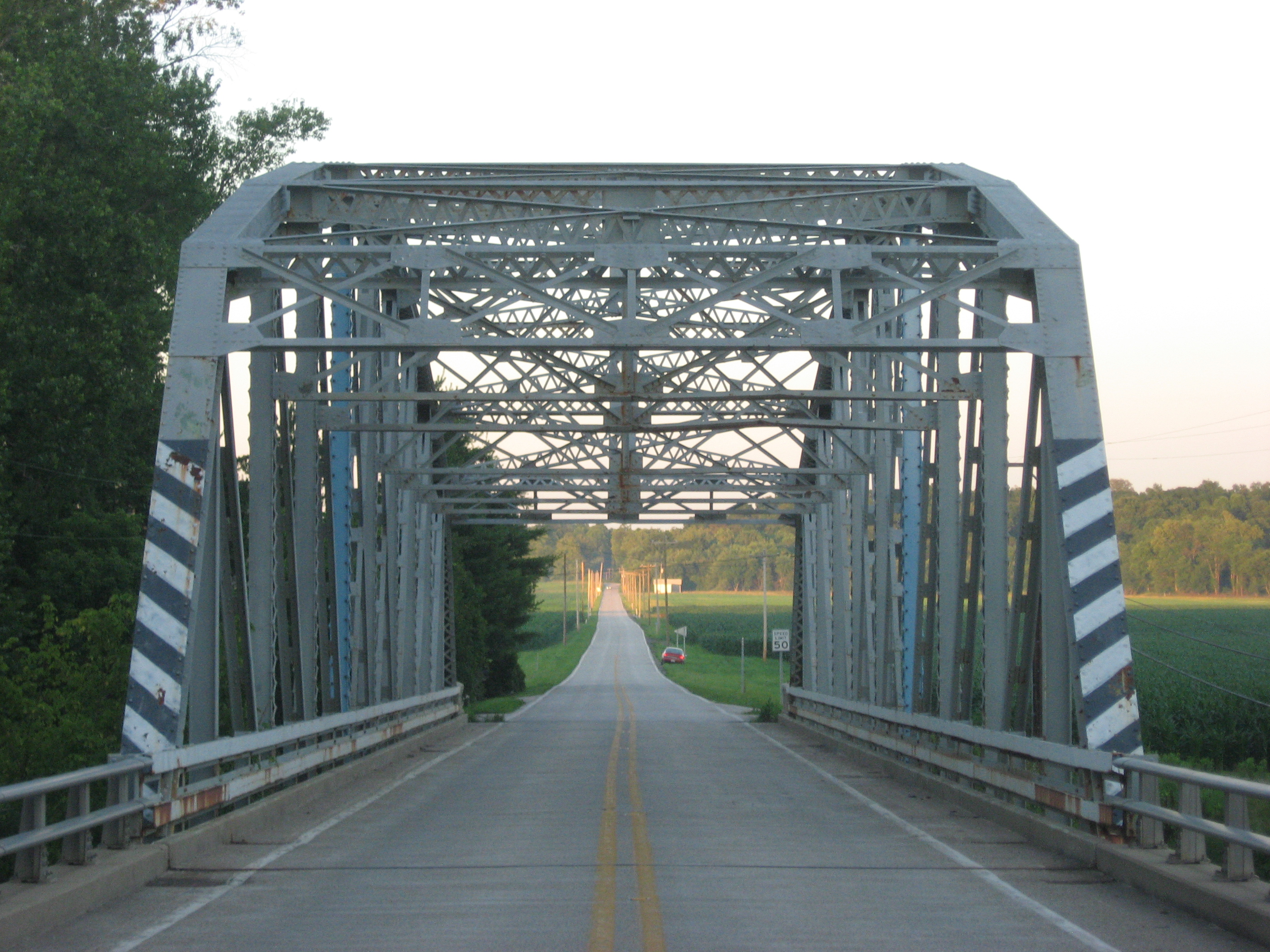 Western portal of the Indiana State Highway Bridge 42-11-3101, which carries State Road 42 over the Eel River west of Poland in Cass Township, Clay County, Indiana, United States. Built in 1939, it is listed on the National Register of Historic Places.